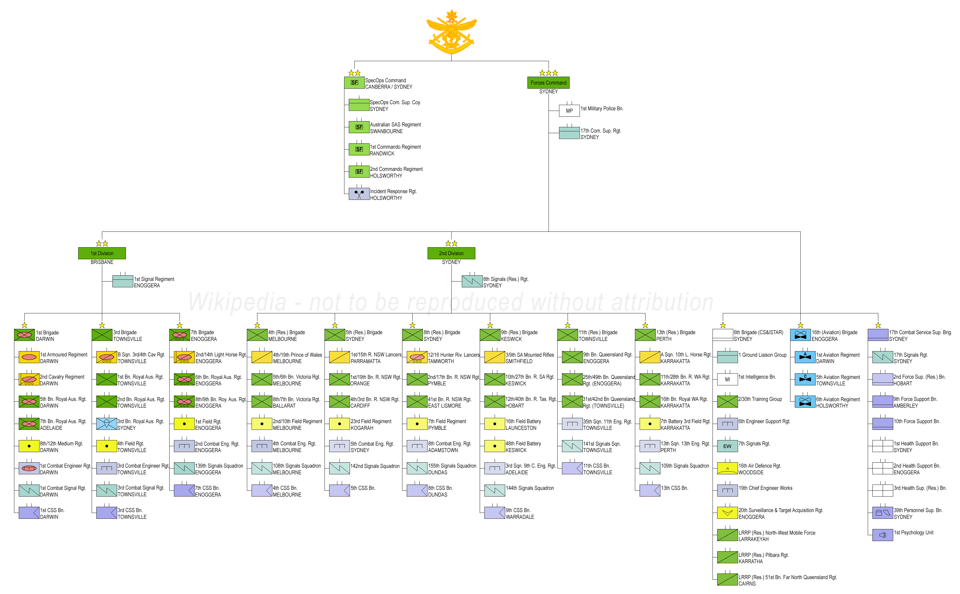 The structure of the Australian Land Forces (including Special Forces Command) up to 2009, made by myself noclador - Current Structure at: File:Australia Army 2010.png